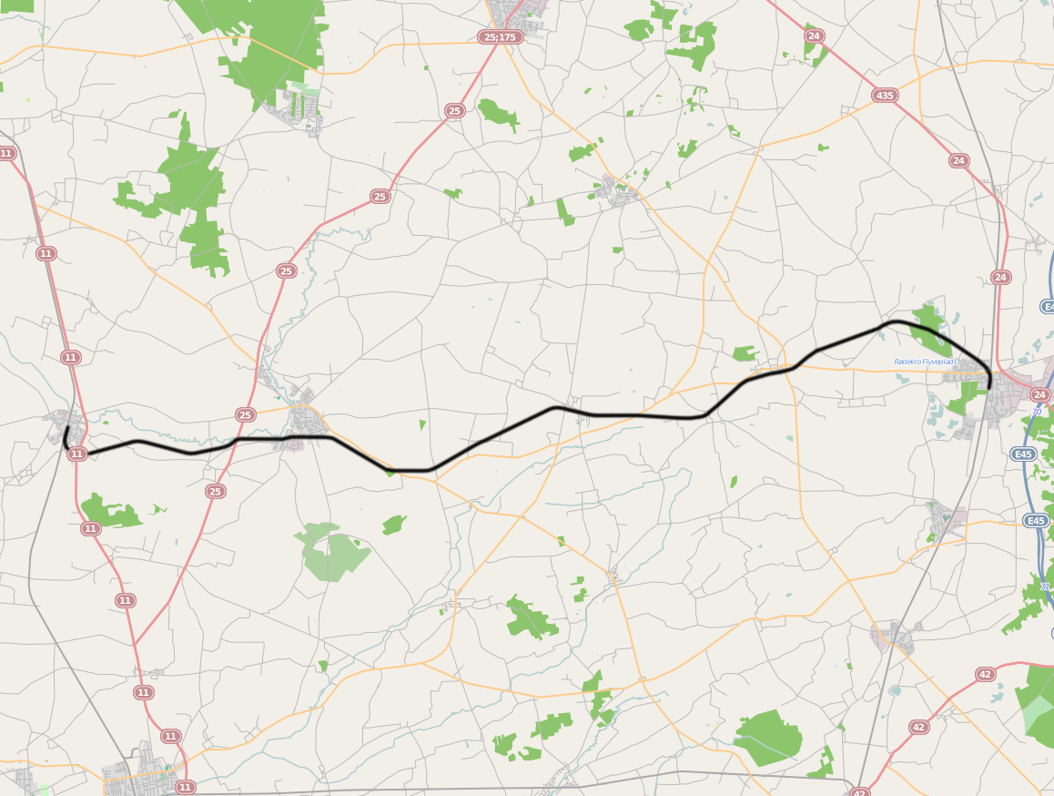 Railway line Rødekro - Bredebro